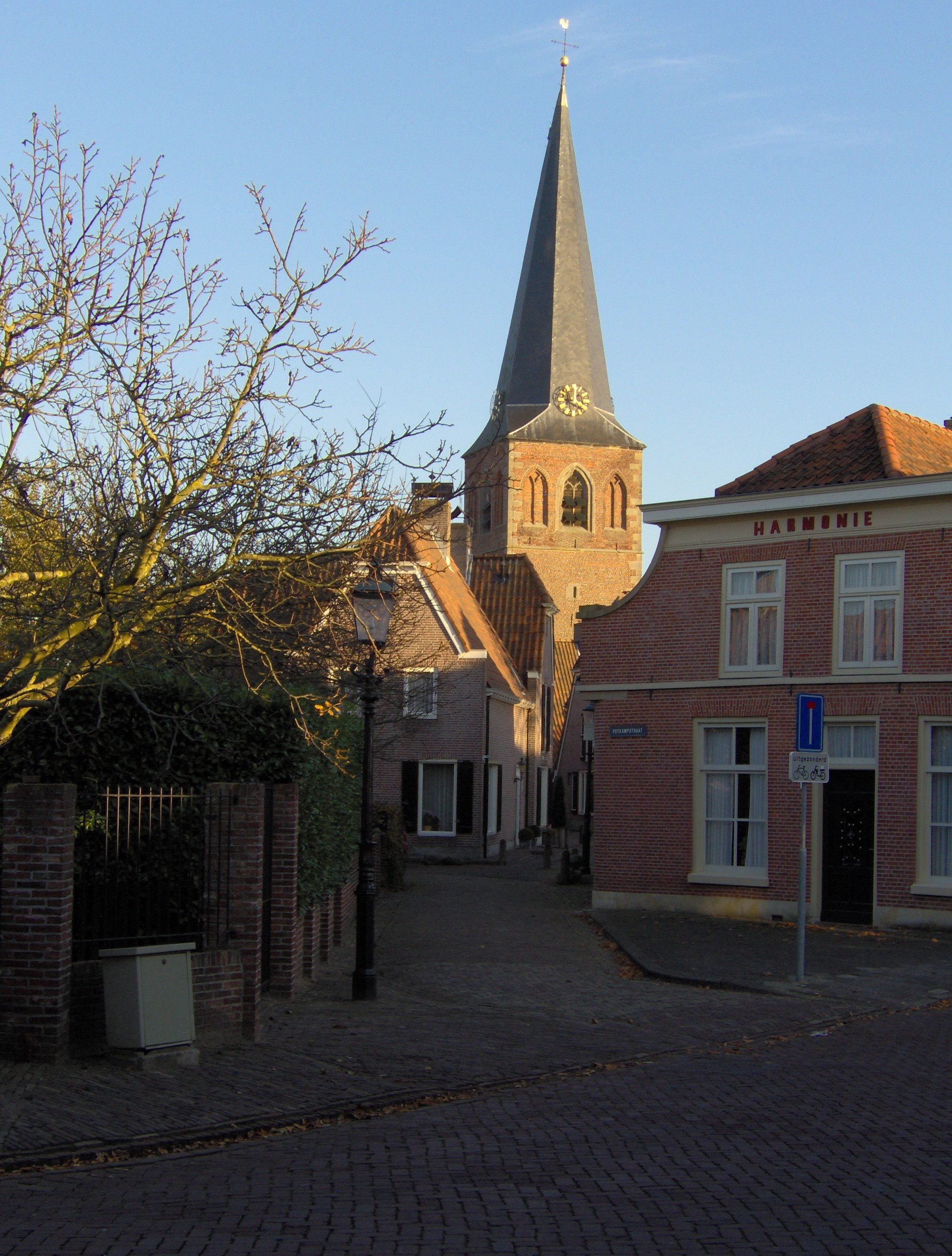 The Oude Kerk in Borne